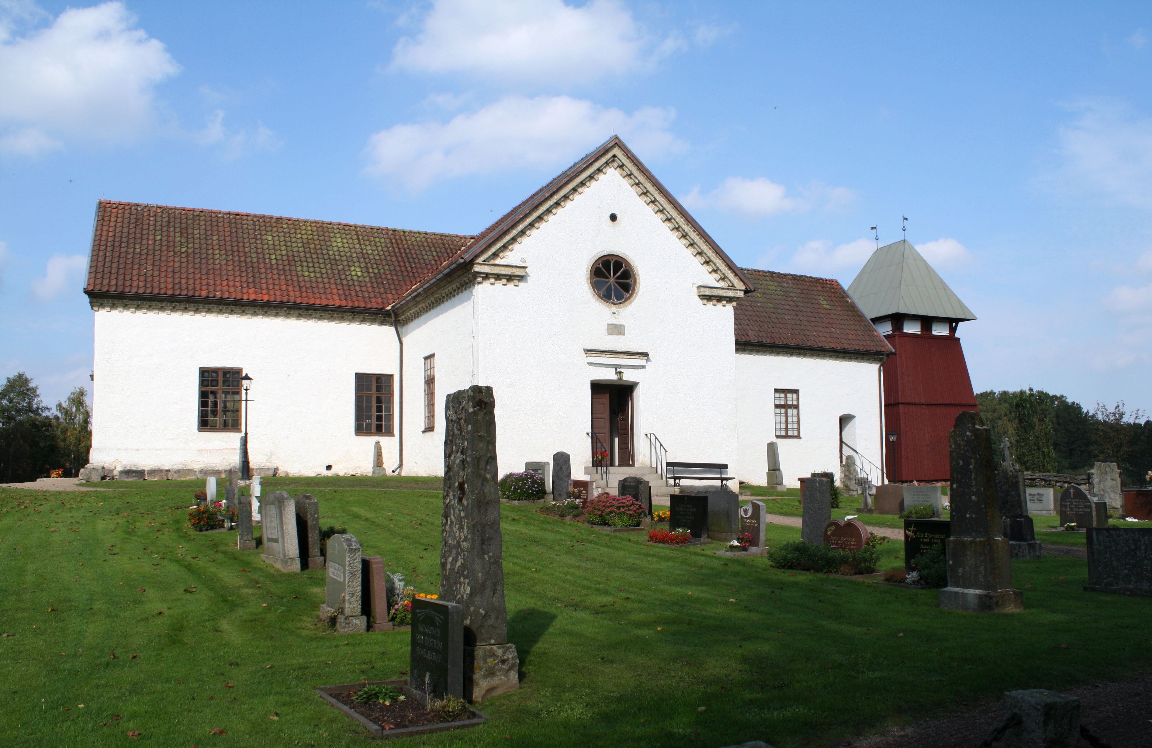 The church at Brönnestad, from the churchyard